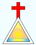 Hermetic Order of the Golden Dawn